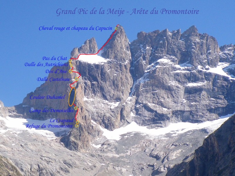 Meije Grand Pic - Promontoire ridge